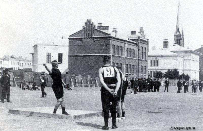 Sportsmen in the Vyborg